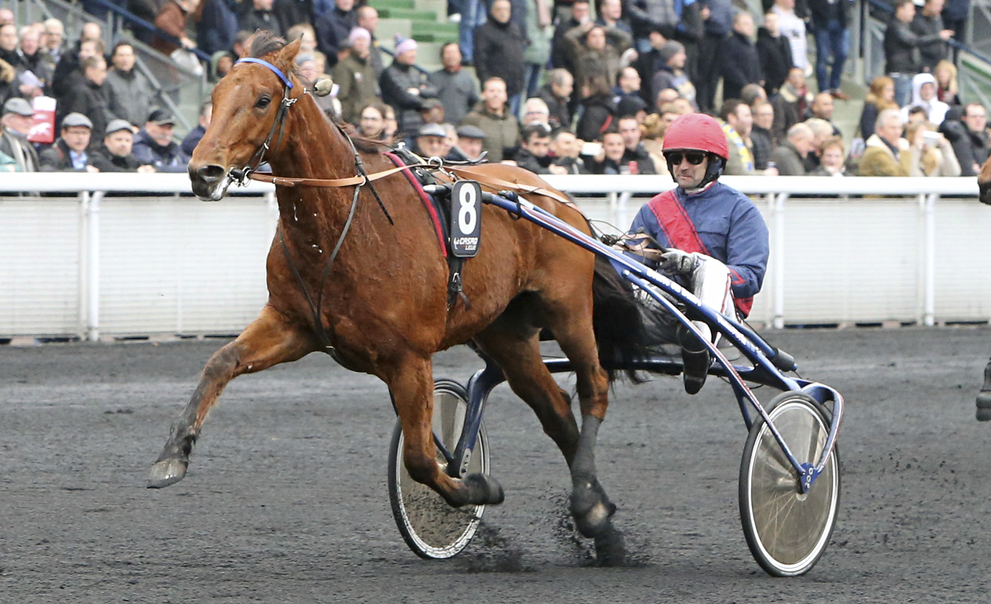 Foto: MARIA HOLMÉN/TR BILD Foto: Maria Holmén/Ronden.Vincennes 20170128.Prix du Luxembourg..Aubrion du Gers med Jean-Michel Bazire